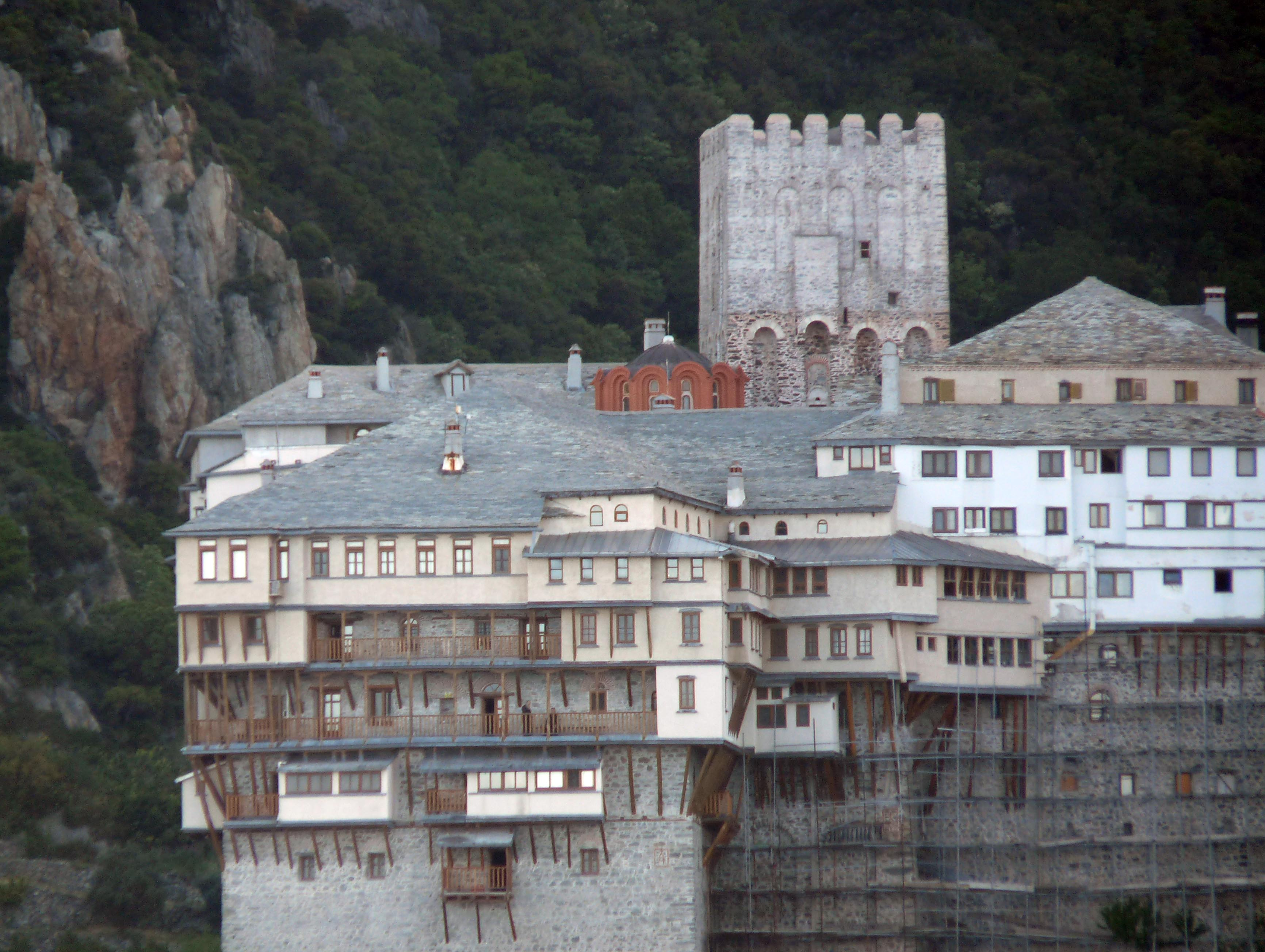 Mt Athos monasteries 12